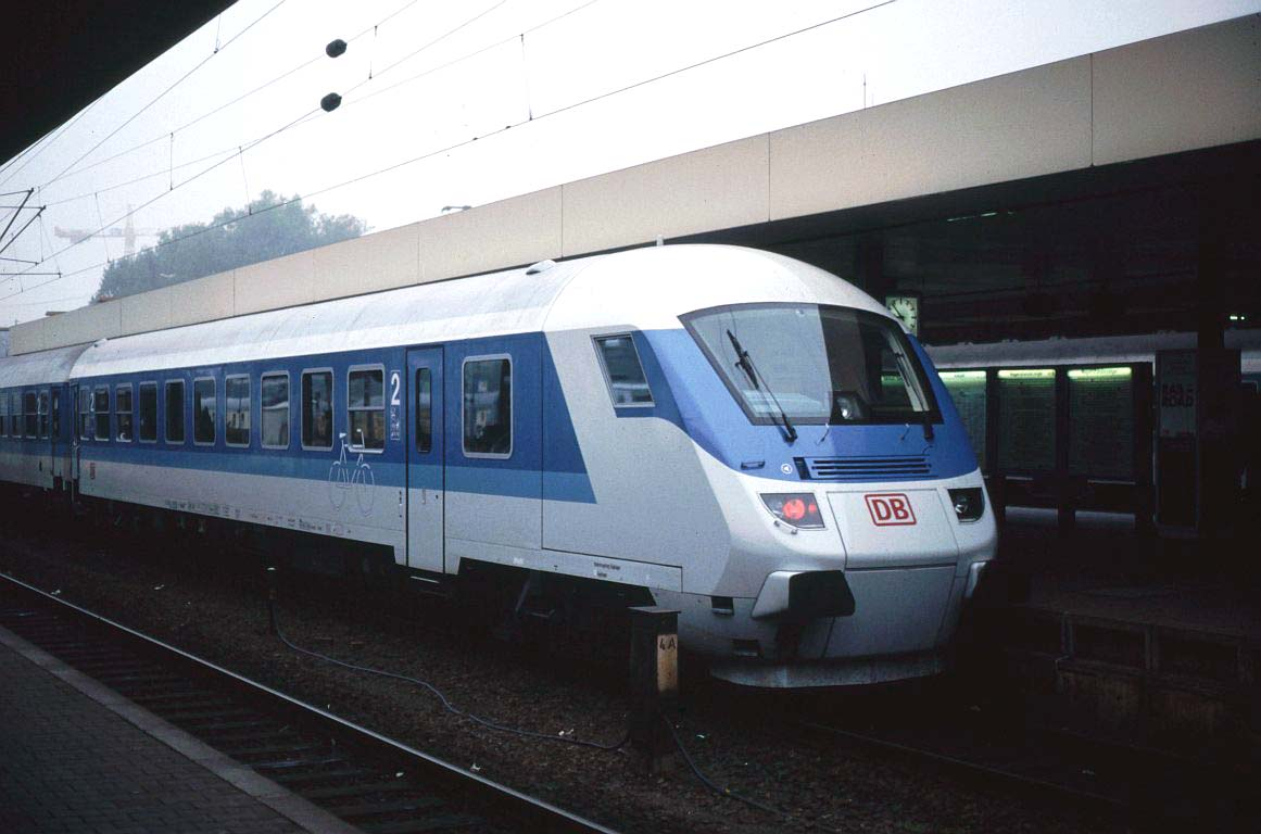 DB AG type Bimdzf 269 InterRegio cab car seen in Heidelberg main station